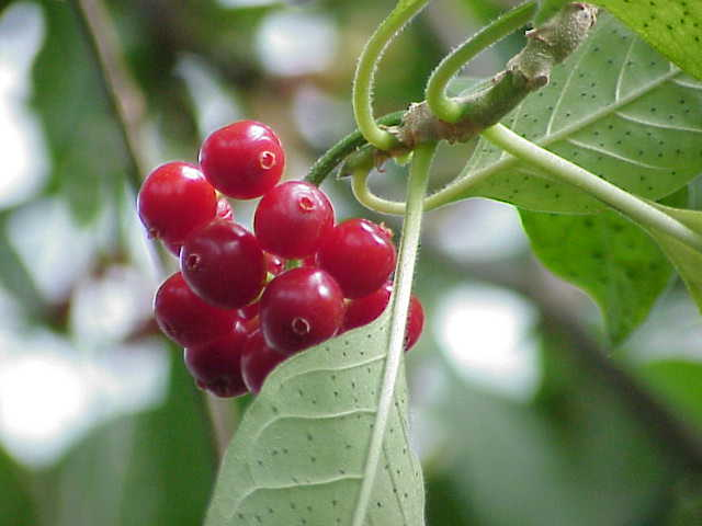 Species: Cephaelis acuminata Family: Rubiaceae Image No. 3